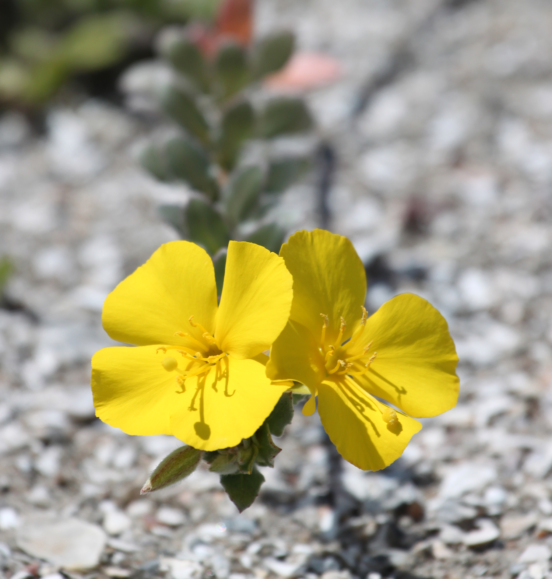 Beach Evening Primrose (Oenothera cheiranthifolia suffruticosa). Least Tern Island, Upper Newport Bay, Newport Beach, CA